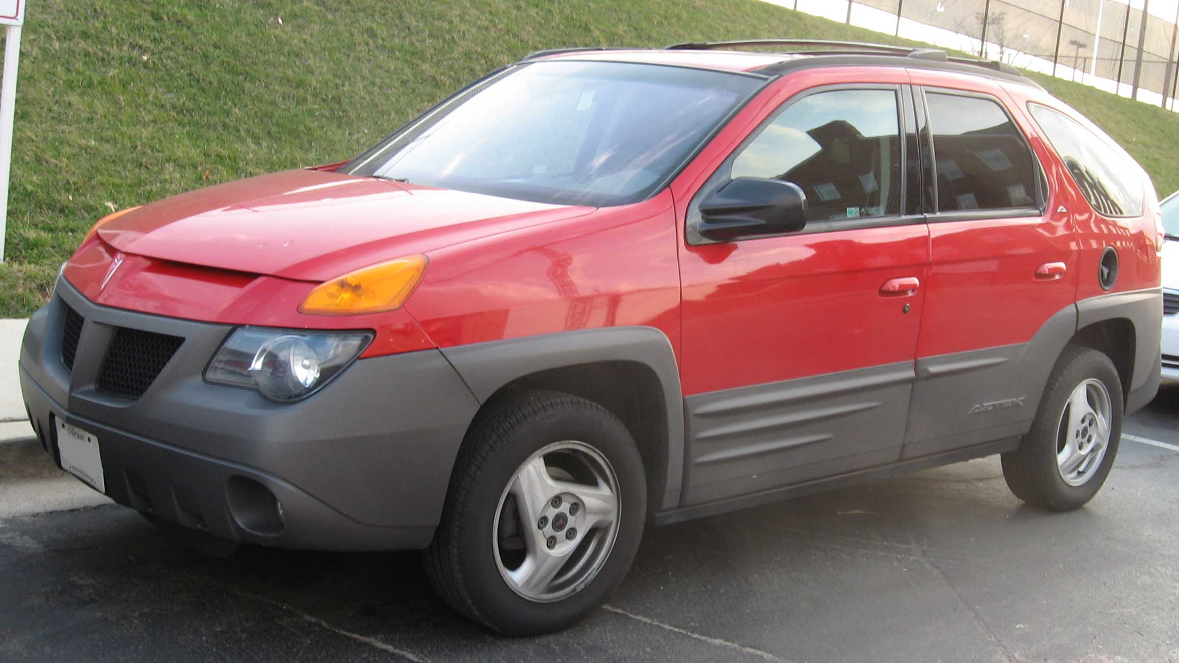 2001 Pontiac Aztek photographed in College Park, Maryland, USA.